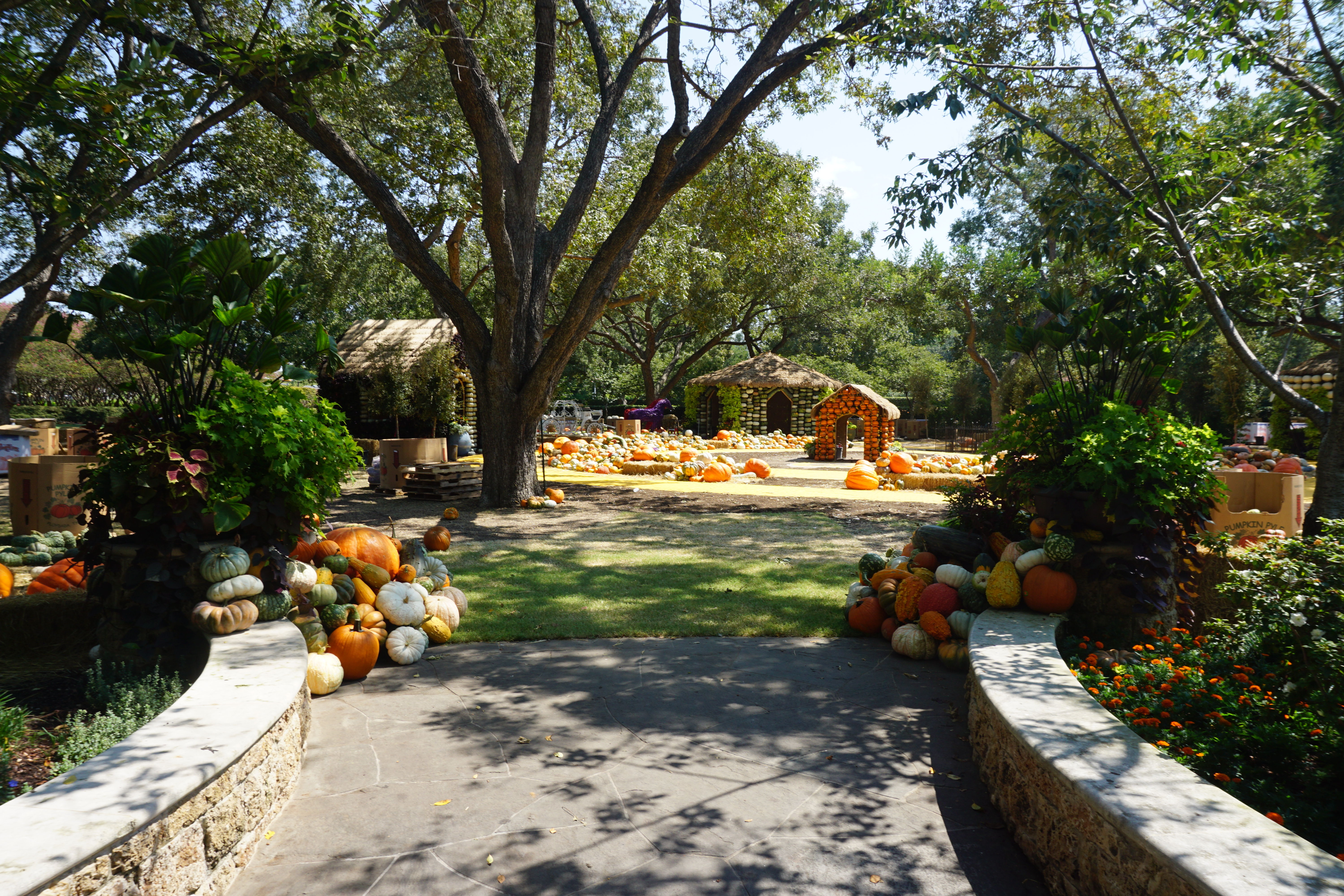 The Pumpkin Village in Pecan Grove at the Dallas Arboretum and Botanical Garden in Dallas, Texas (United States).